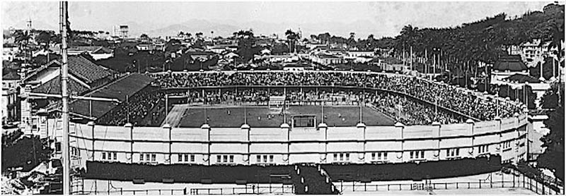 Estadio Das Laranjeiras after being refurbished for the 1922 Sudamericano.